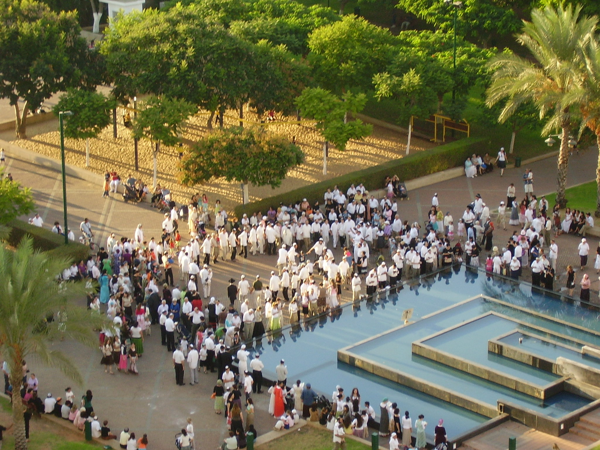 \"tashlich\" praying of rosh hashanah, in merom nave park in ramat gan